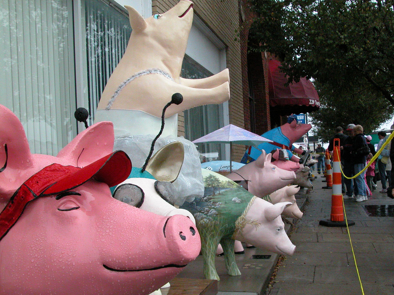 Lexington Barbecue Festival 2008, Pigs on Parade. Pig statues of all kinds.